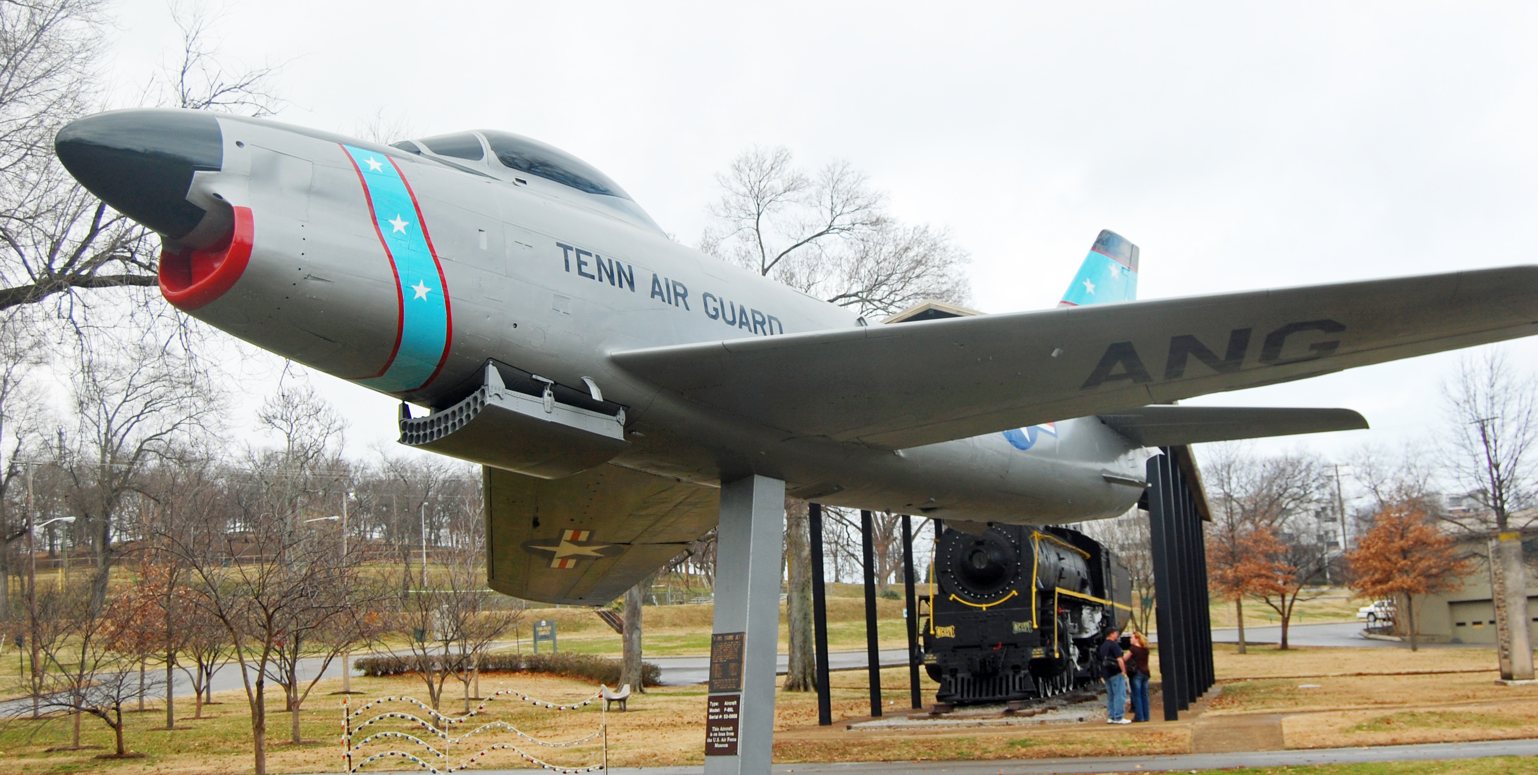 F-86L, in Nashville, near the Parthenon, serial number 53-0668